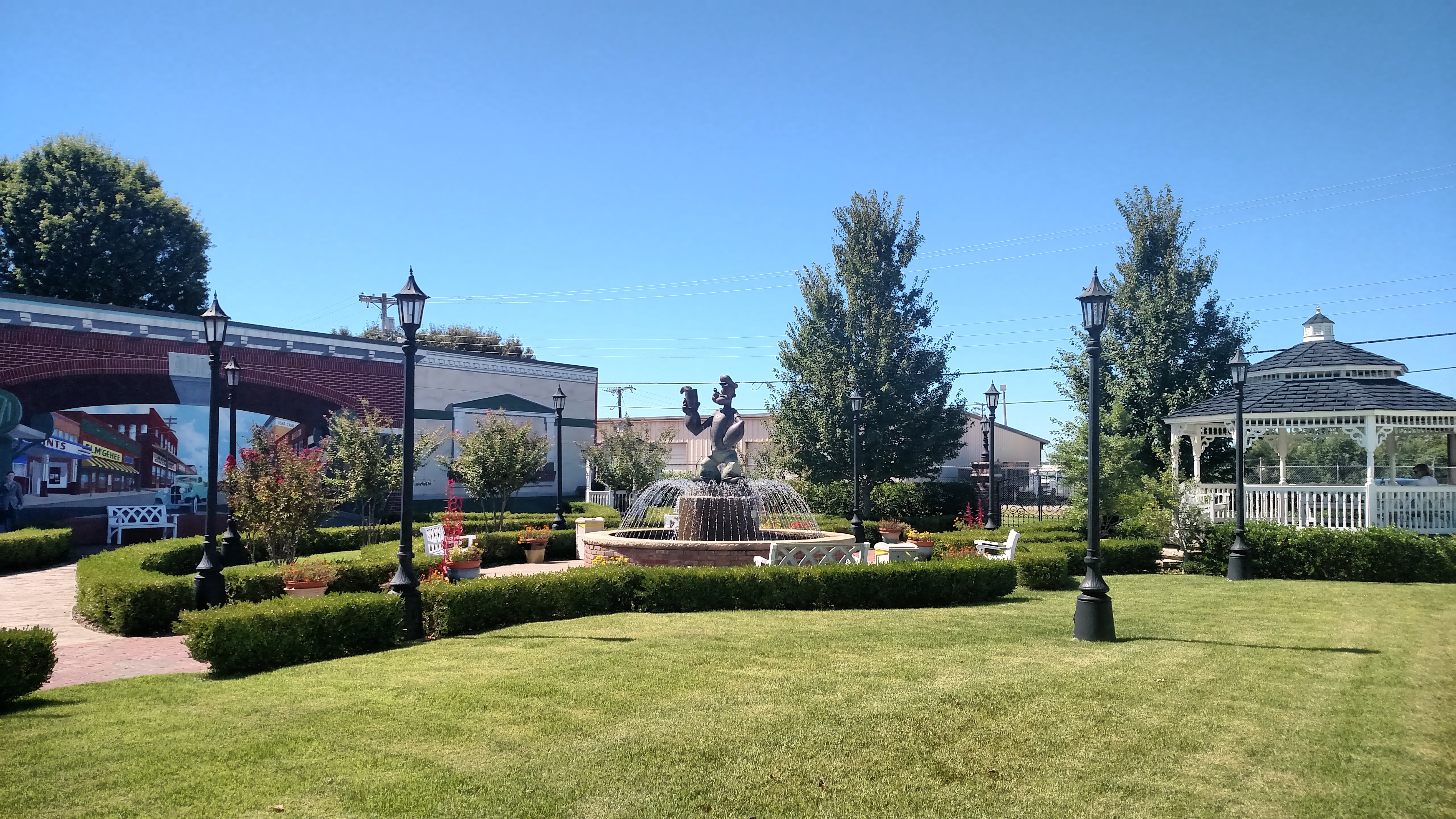 Downtown park, gazebo and fountain in Alma, AR